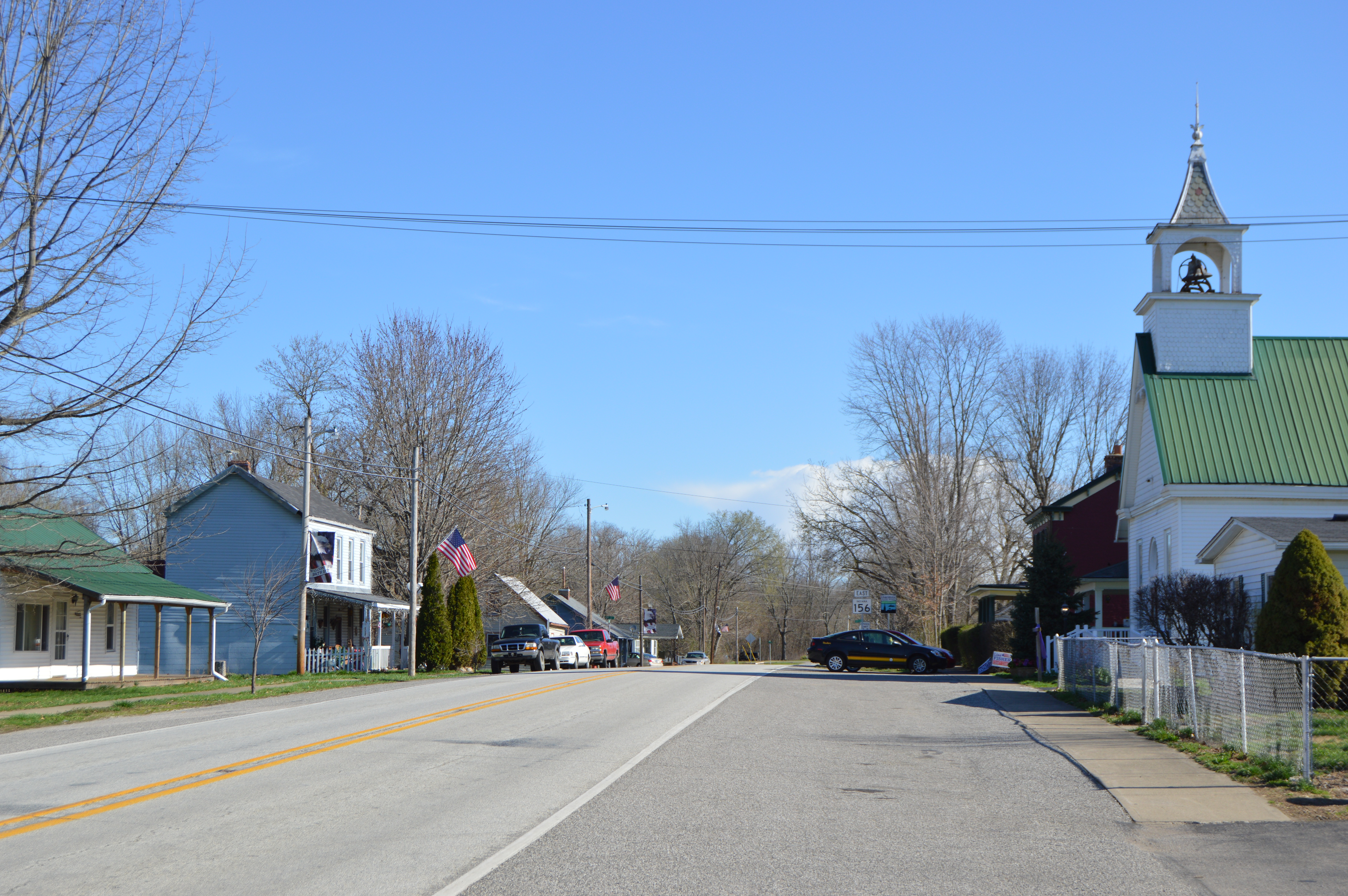 Houses and a church on Main Street (State Road 156), seen looking northeast from the Third Street intersection, in Patriot, Indiana, United States.